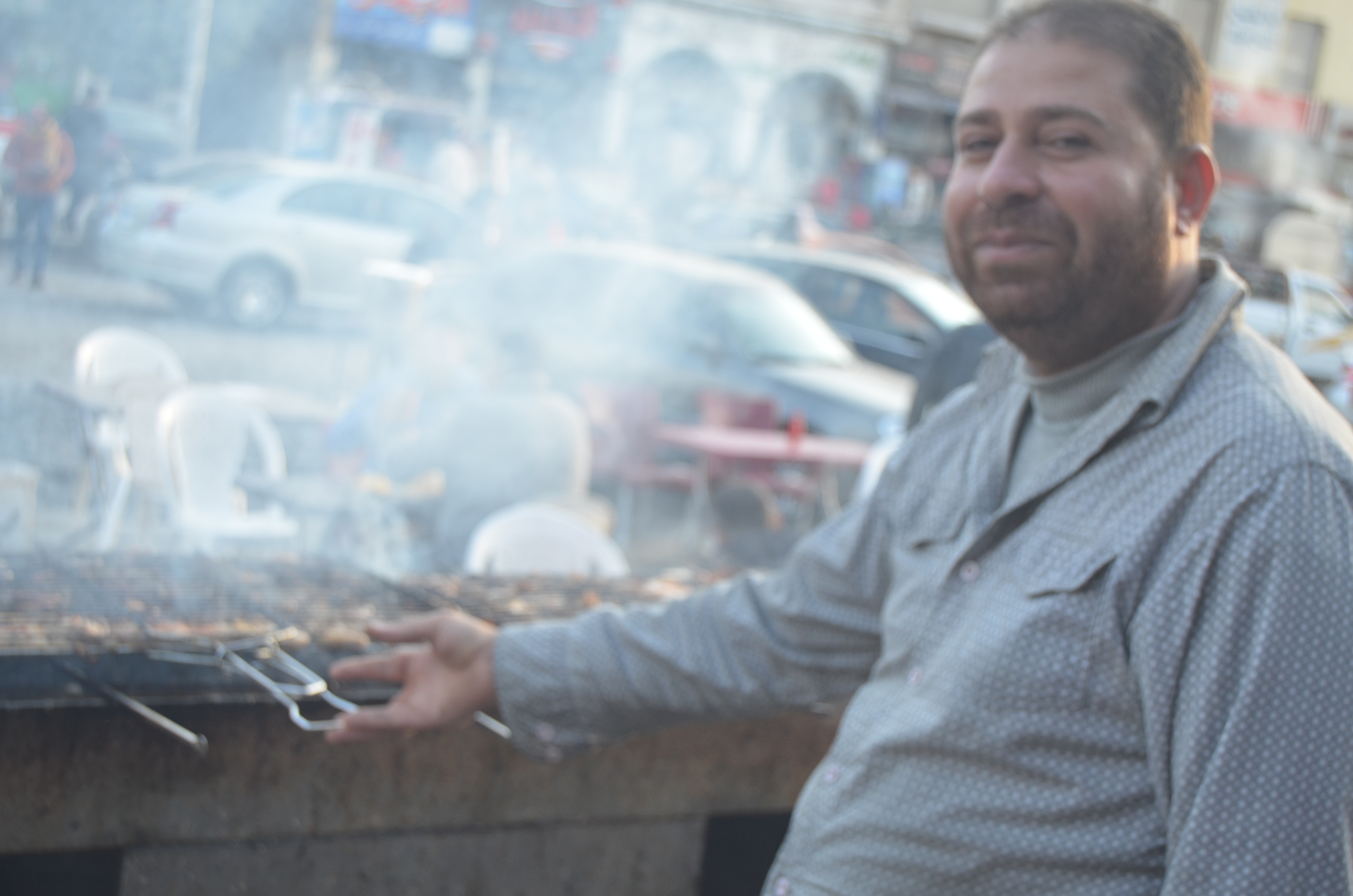 egyptian person cooks a chicken on coal fire